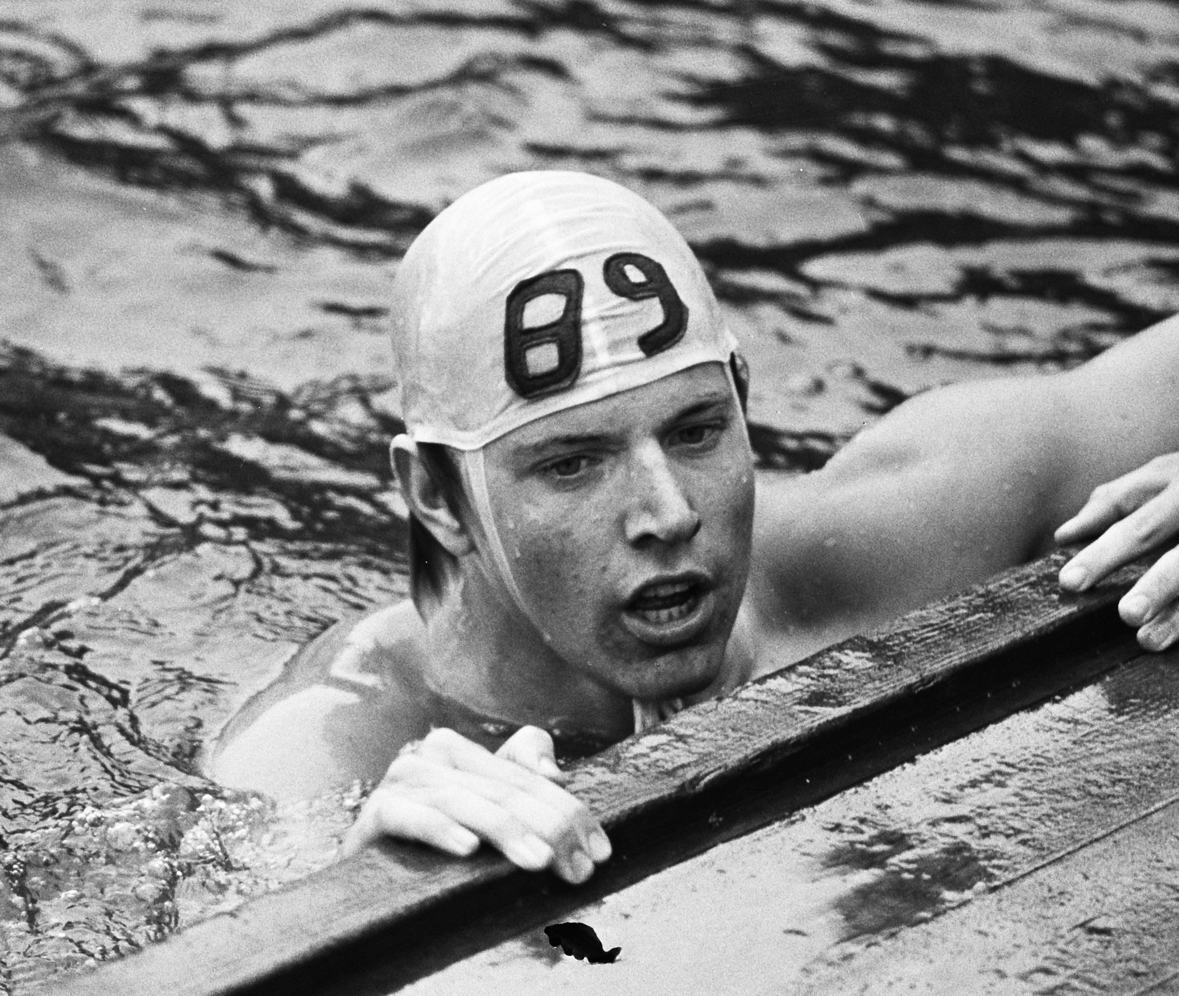 Henk Elzerman